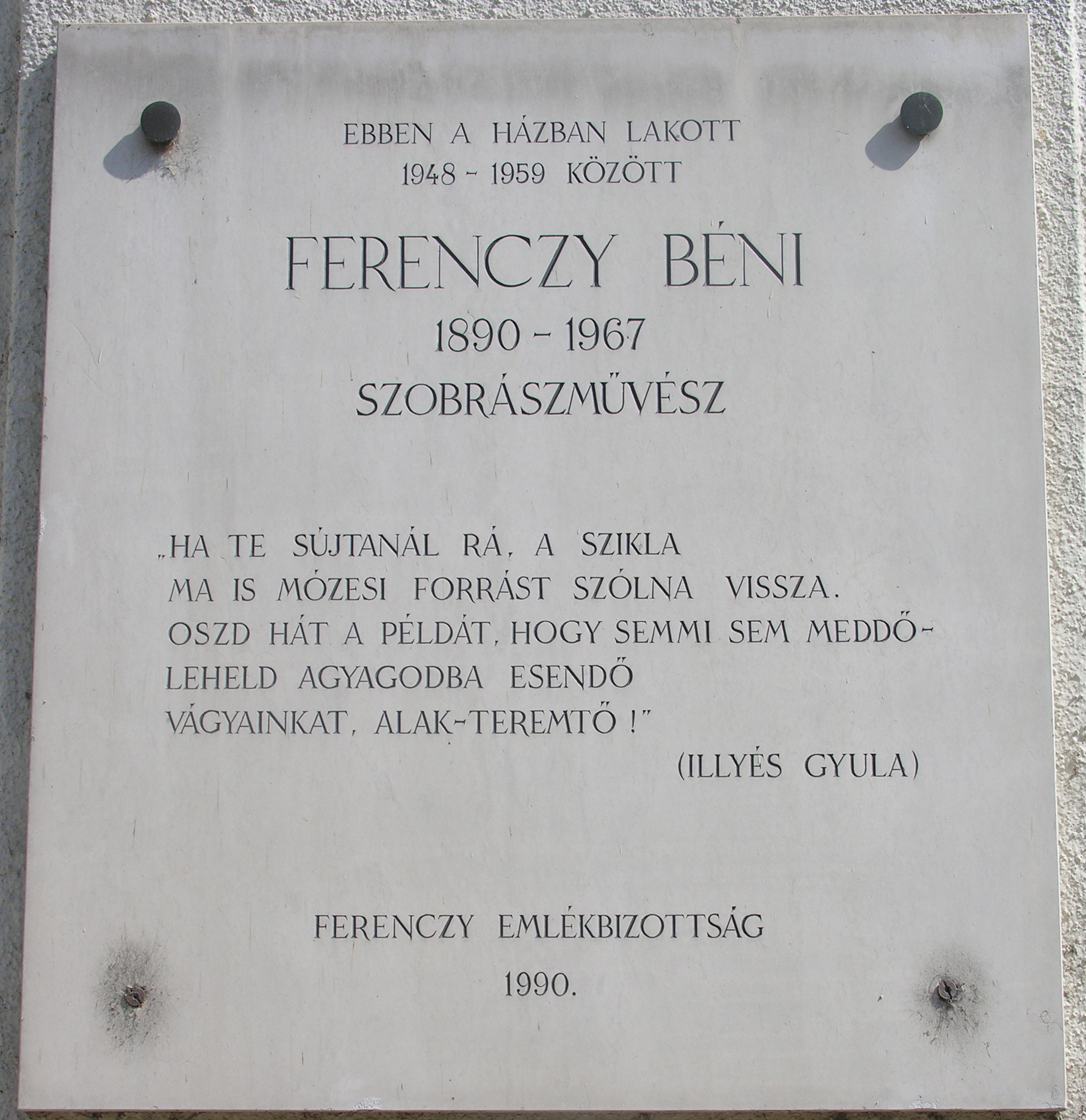 Commemorative plaque of Béni Ferenczy, Budapest District XIII, Jászai Mari Square No 5